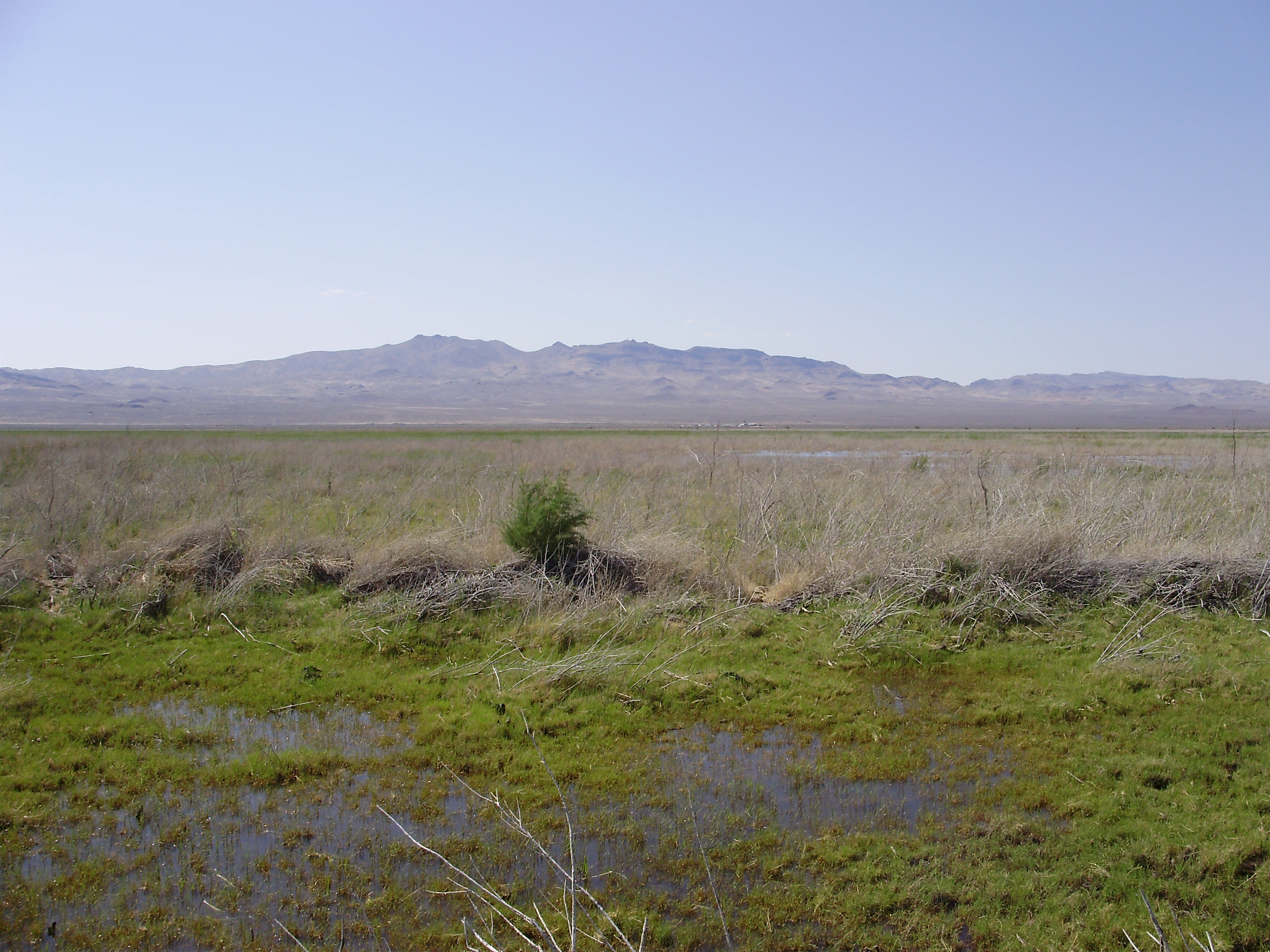 View across the Humboldt Salt Marsh near Lovelock, Nevada